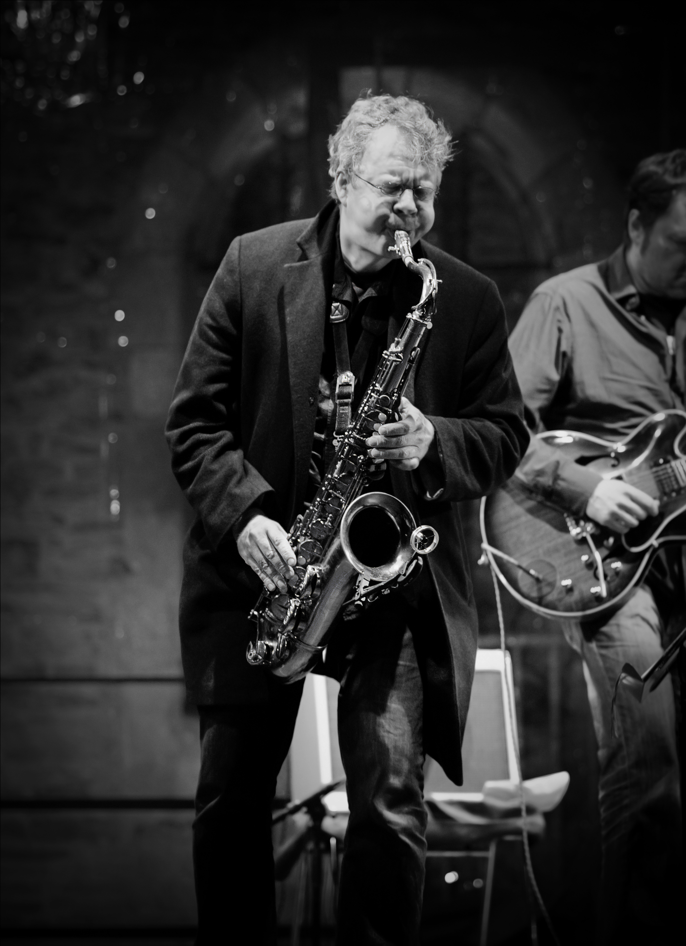 Claudius Valk live at Aachen September Special 2010